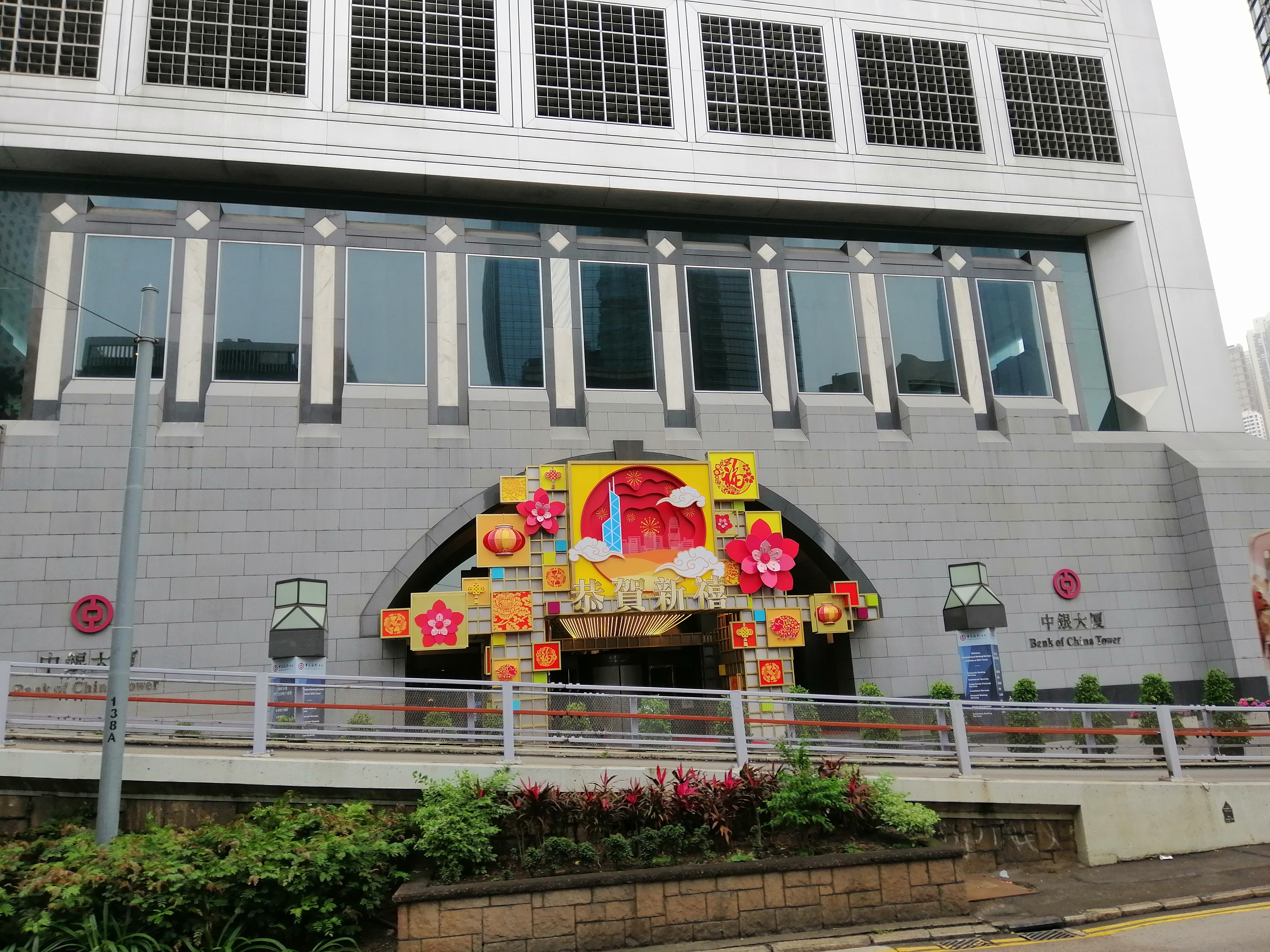 Bank of China Entrance 2